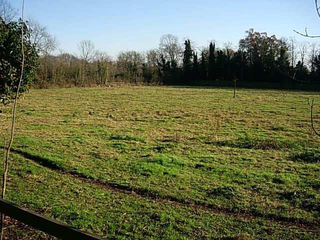 Skaters' Meadow This is now a Wildlife Trust reserve for its wet grassland flora. The name comes from its usage between 1920 and 1940 when it was flooded and used as a skating rink in the evening - the post in the middle is the old lamppost.